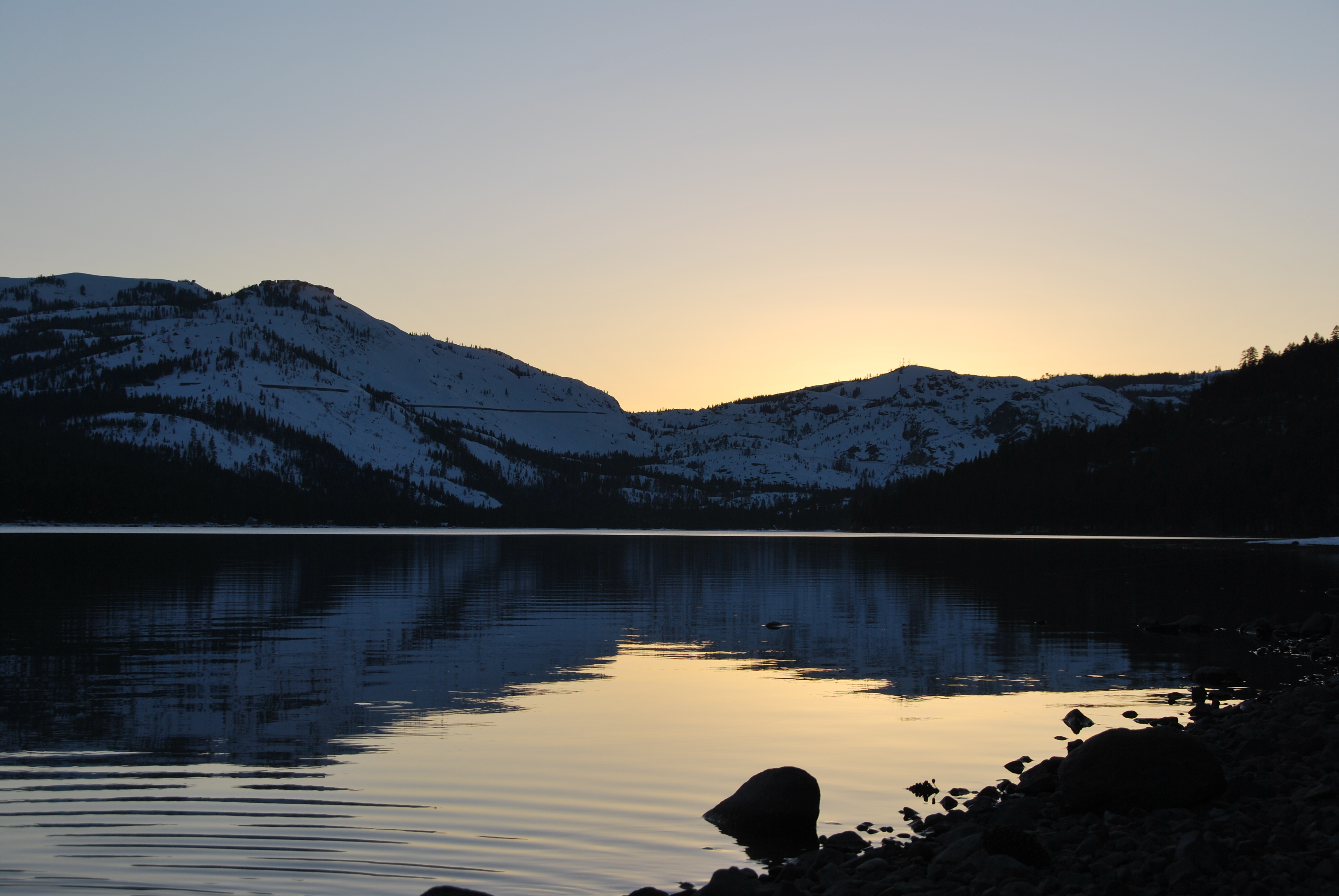 Donner Lake at sunset